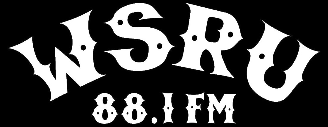 Former logo for WSRU, Slippery Rock, PA